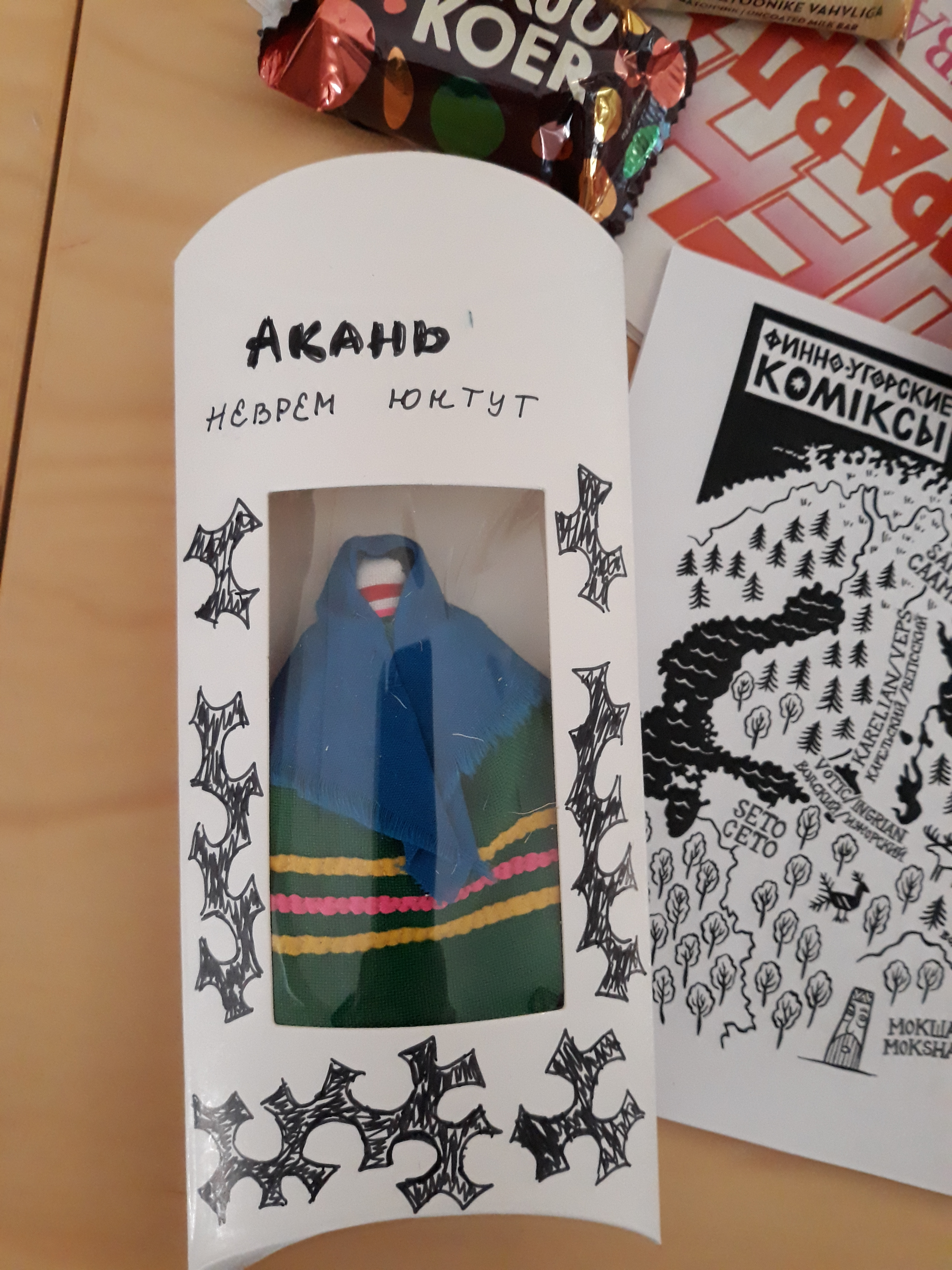 Akan - traditional Komi doll in fish skin clothes and fabric This photo has been taken in the country: Russia